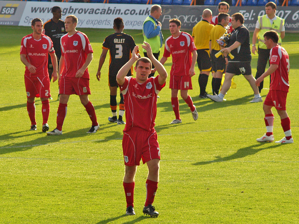 Bury FC midfielder Stephen Dawson applauds the travelling supporters after the Barnet vs. Bury match at the Underhill Stadium, the home of Barnet FC. Saturday 20th September 2008